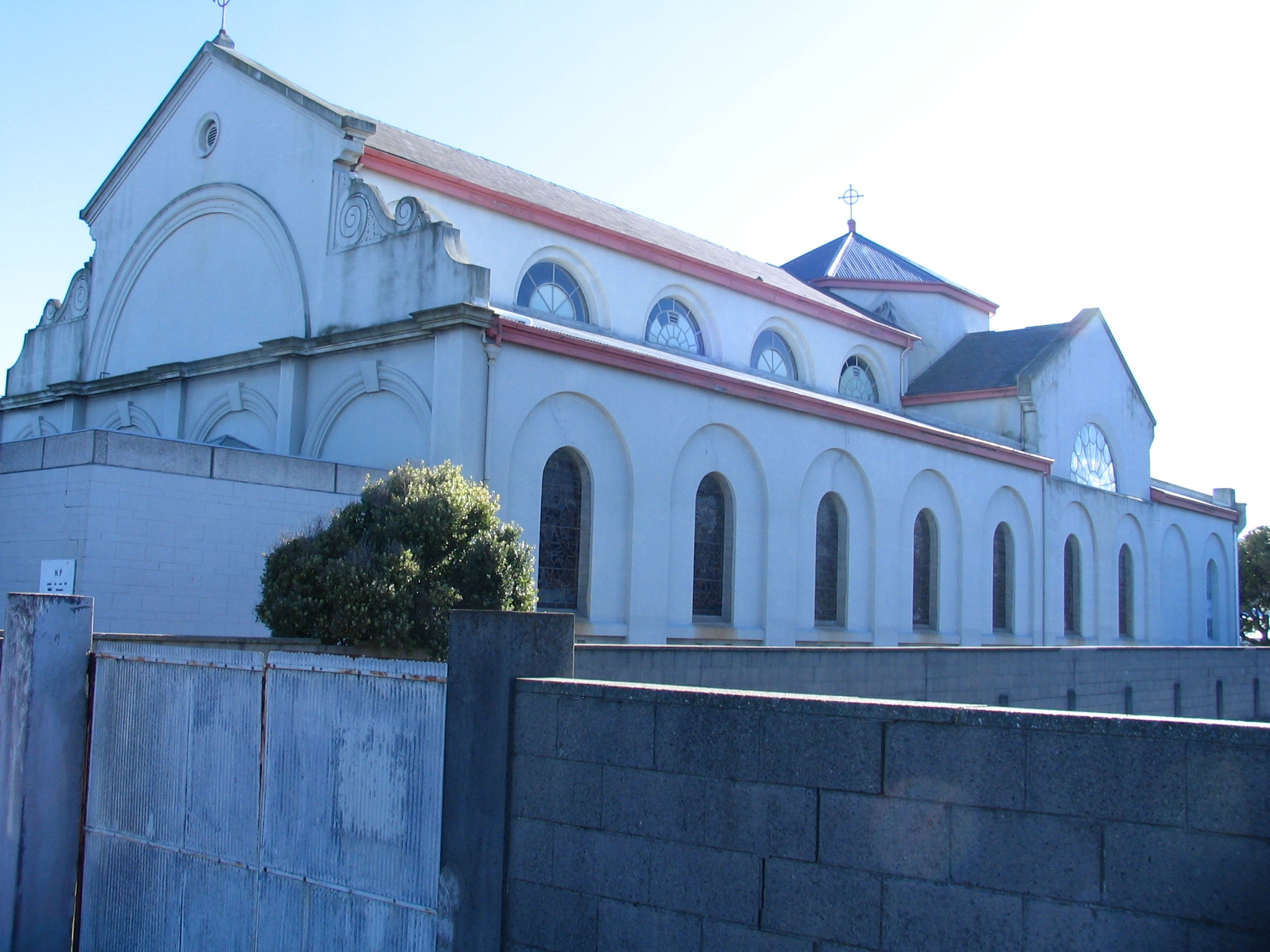 Exterior view of St Patrick's Basilica, Dunedin, New Zealand.